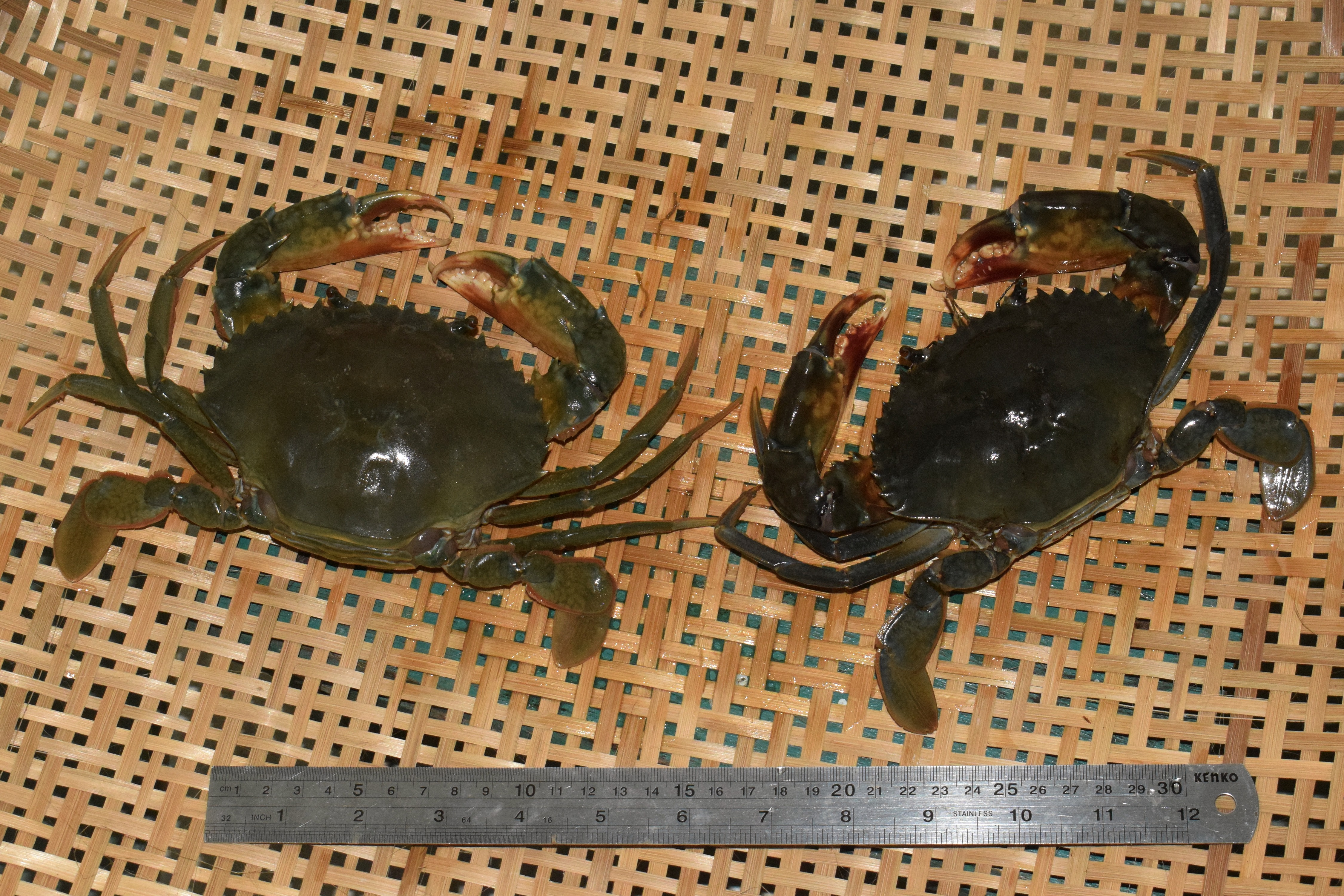 Green mangrove crab Scylla paramamosain, dorsal view. Left: female, 117.7mm CW (carapace width); right: male, 104.7mm CW. From Jakarta Bay (Segara Jaya, near Marunda), West Java, Indonesia.